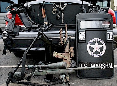 United States Marshals Service Tools